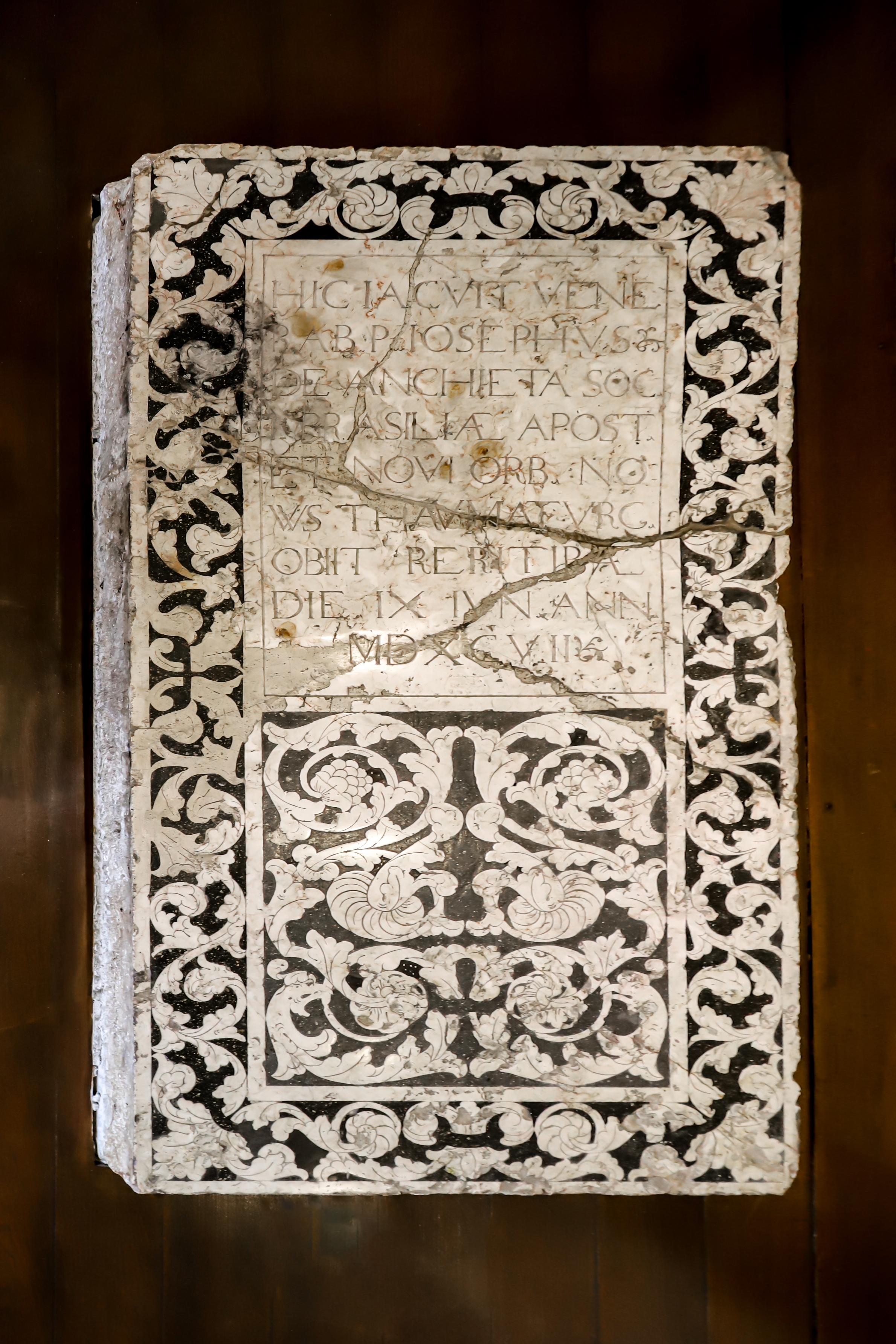 Gravestone on the symbolic tomb of Saint José de Anchieta y Díaz de Clavijo (Joseph of Anchieta, 1534-1597), Palácio Anchieta, Vitória, Espírito Santo, Brazil. Anchieta was buried in front of the main altar of the church, next to another Jesuit priest, Gregório Serrão. Anchieta's bones were removed to the College of the Jesuits in Salvador, Bahia in Salvador in 1610, then to Rome. The Jesuits sent a relic of José de Anchieta, a piece of his femur, and a tombstone was commissioned from Portugal in the late 16th century. It is carved from lioz stone and has black granite inlay with Asian-inspired floral details.